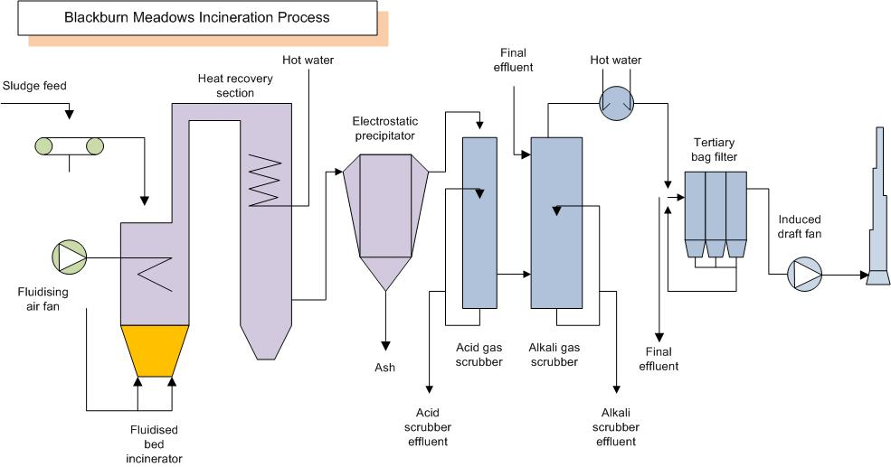 Diagram of the sewage sludge incineration process at Blackburn Meadows Sewage Treatement Works, Sheffield, England